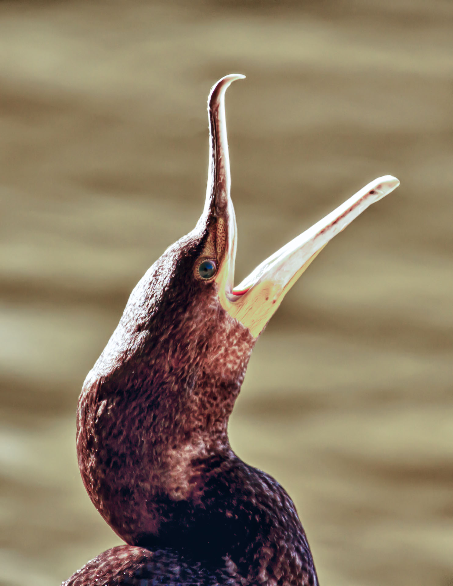 cormorant opening mouth vertically by a river